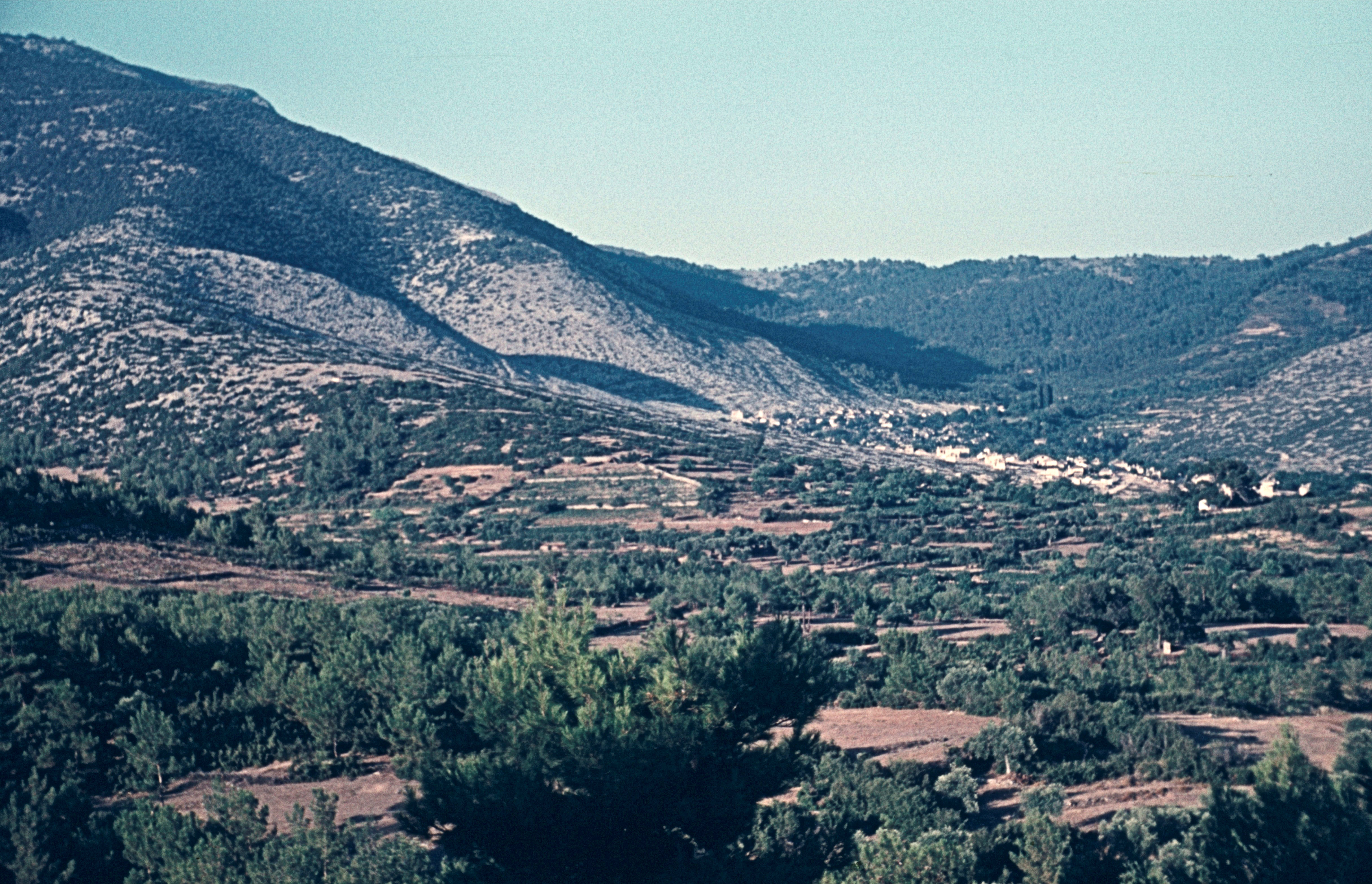 Theologos aus SW